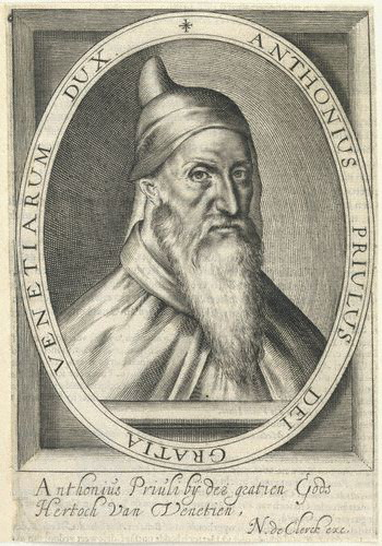 Antonio Priuli (1548-1623)